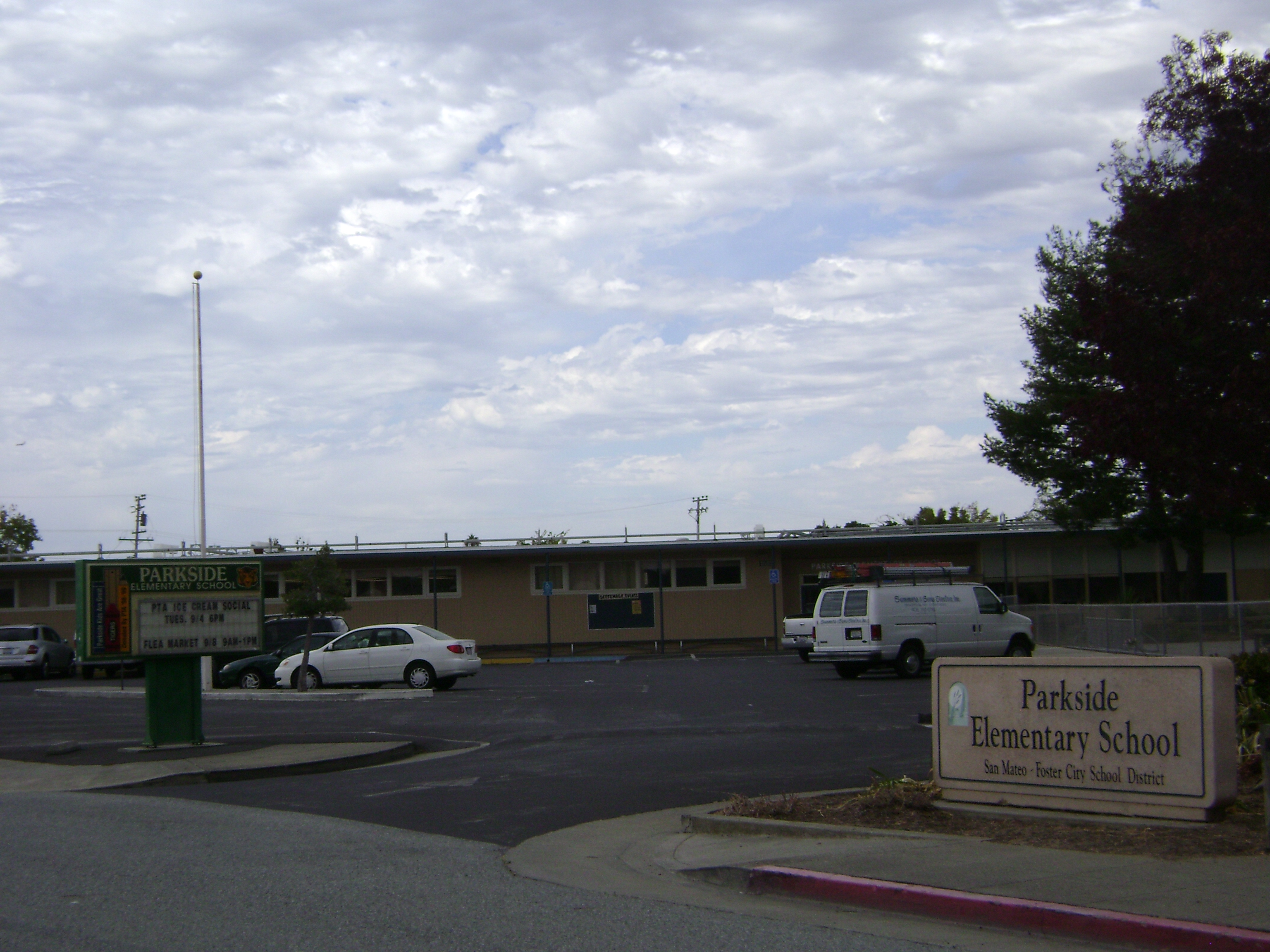 Parkside Elementary School at 1685 Eisenhower, San Mateo, CA 94403